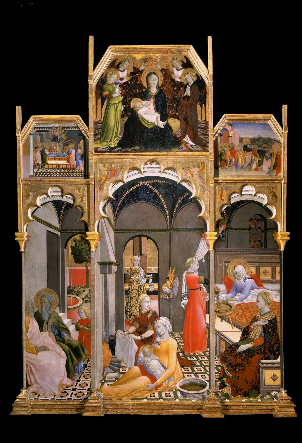 Birth of the Virgin with other Scenes from her Life, tempera and gold leaf on panel painting by the Master of the Osservanza Triptych, ca. 1428-39, Museo d'Arte Sacra, Asciano